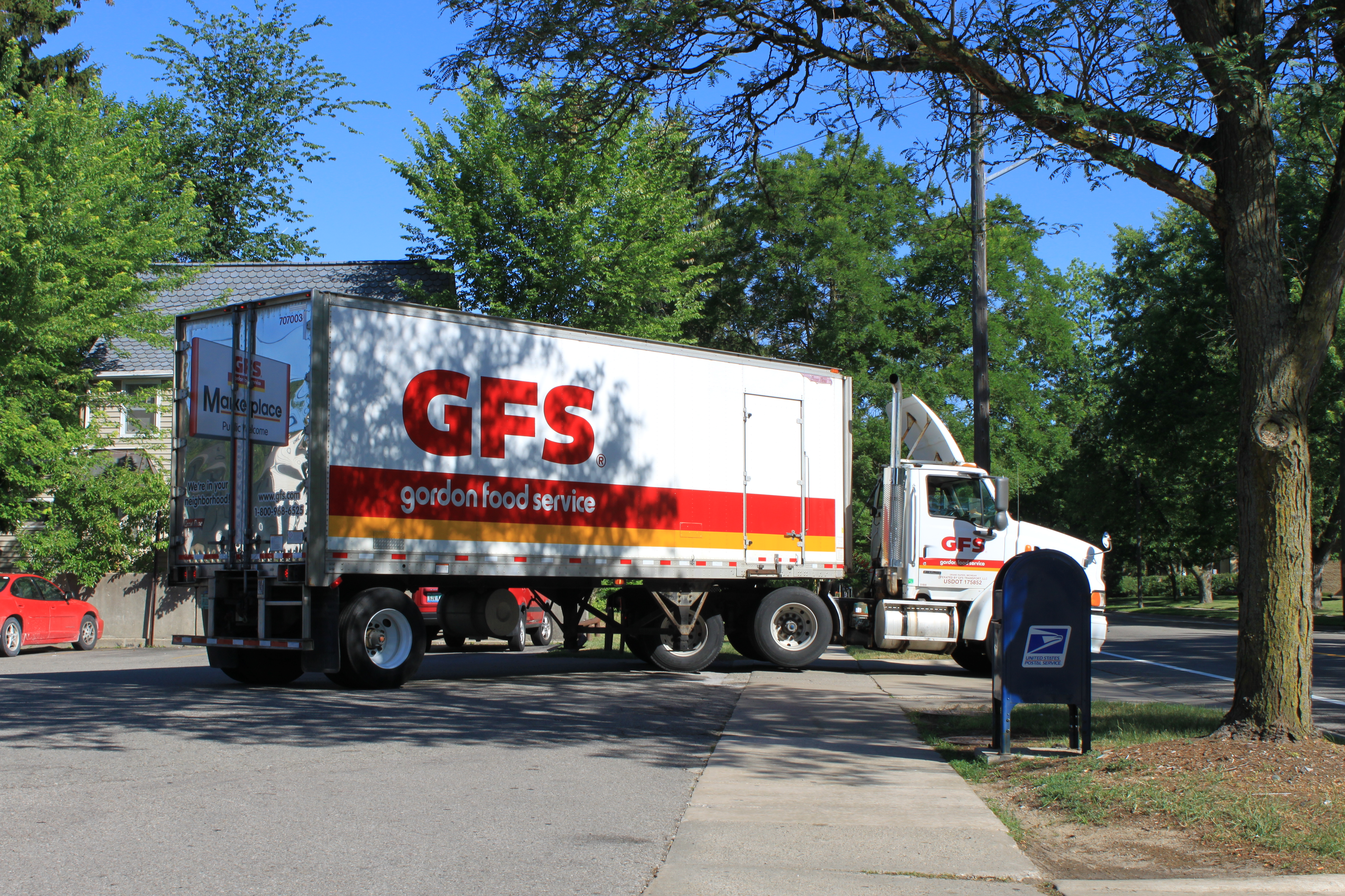 Gordon Food Service delivery truck, Packard Street at E. Stadium Boulevard, Ann Arbor, Michigan